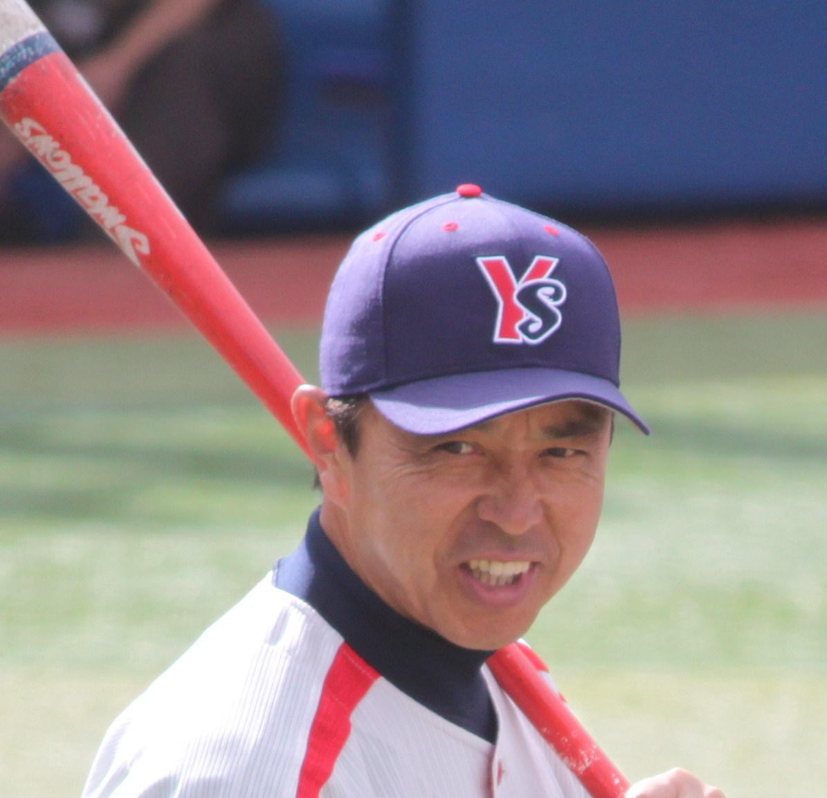 Junji Ogawa, manager of the Tokyo Yakult Swallows, at Yokohama Stadium.